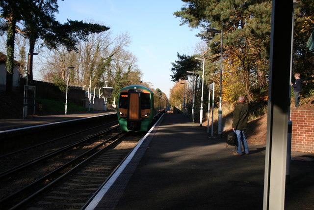 Tadworth Station Only a very short layover is allowed at the branch terminus of Tattenham Corner, so it is not long before unit 377 122 is back again working an Up service to London Charing Cross.